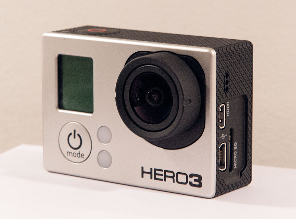 Photo of a GoPro Hero 3 Black Edition released in 2012. Shipped in december.